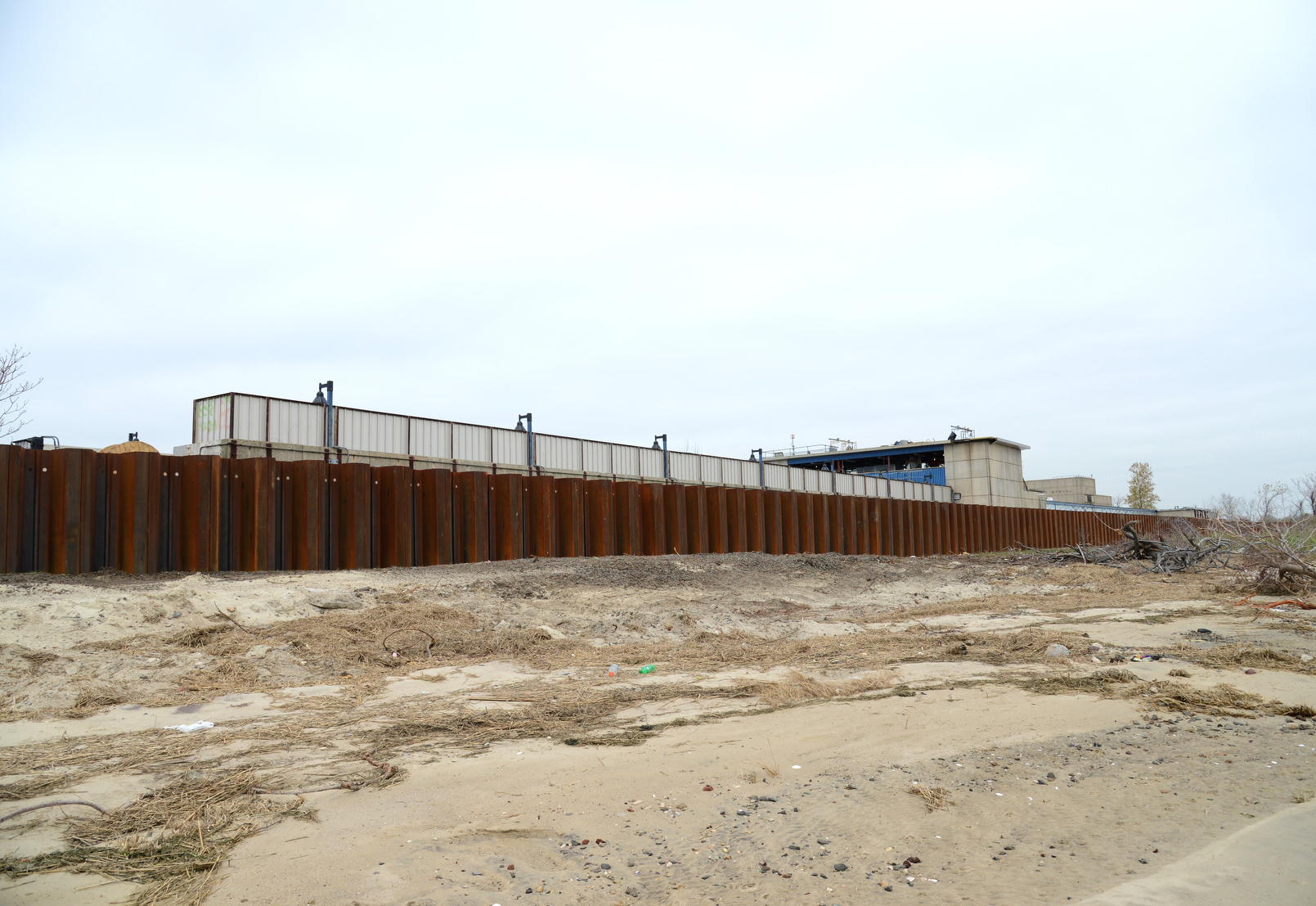 Work continues to restore the "A" Rockaway Line in Queens on Mon., May 6, 2013. The line was severely damaged during Hurricane Sandy. Water sheathing sea wall at the Broad Channel station. Photo: Marc A. Hermann / MTA New York City Transit